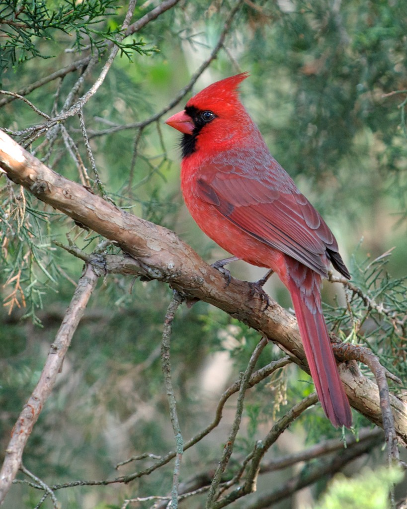 A male Northern Cardinal in Columbus, Ohio, USA.